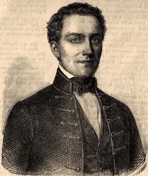 Portrait of the church jurist Imre Révész (1826–1881)